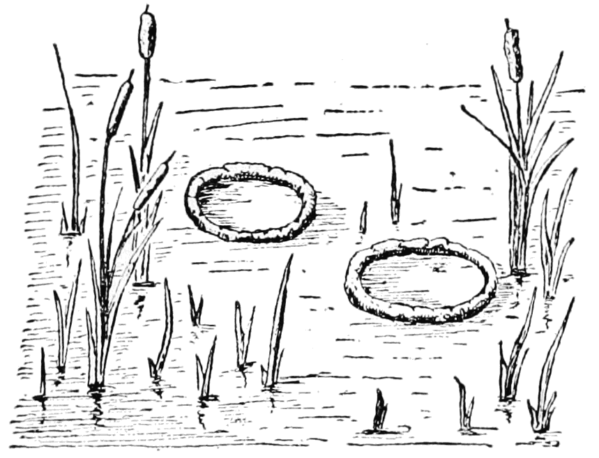 Mud ring nest of the Barazilian tree frog